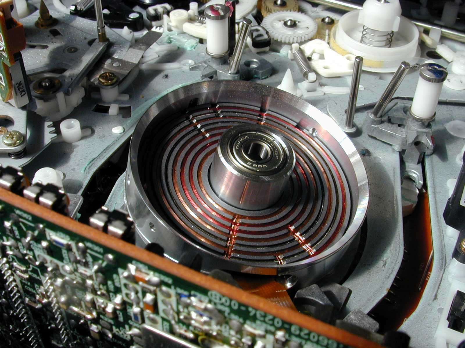 The fixed portion of a 6 channel rotary transformer used in a six-head ("4 head" Hi-Fi NTSC VHS) VCR.